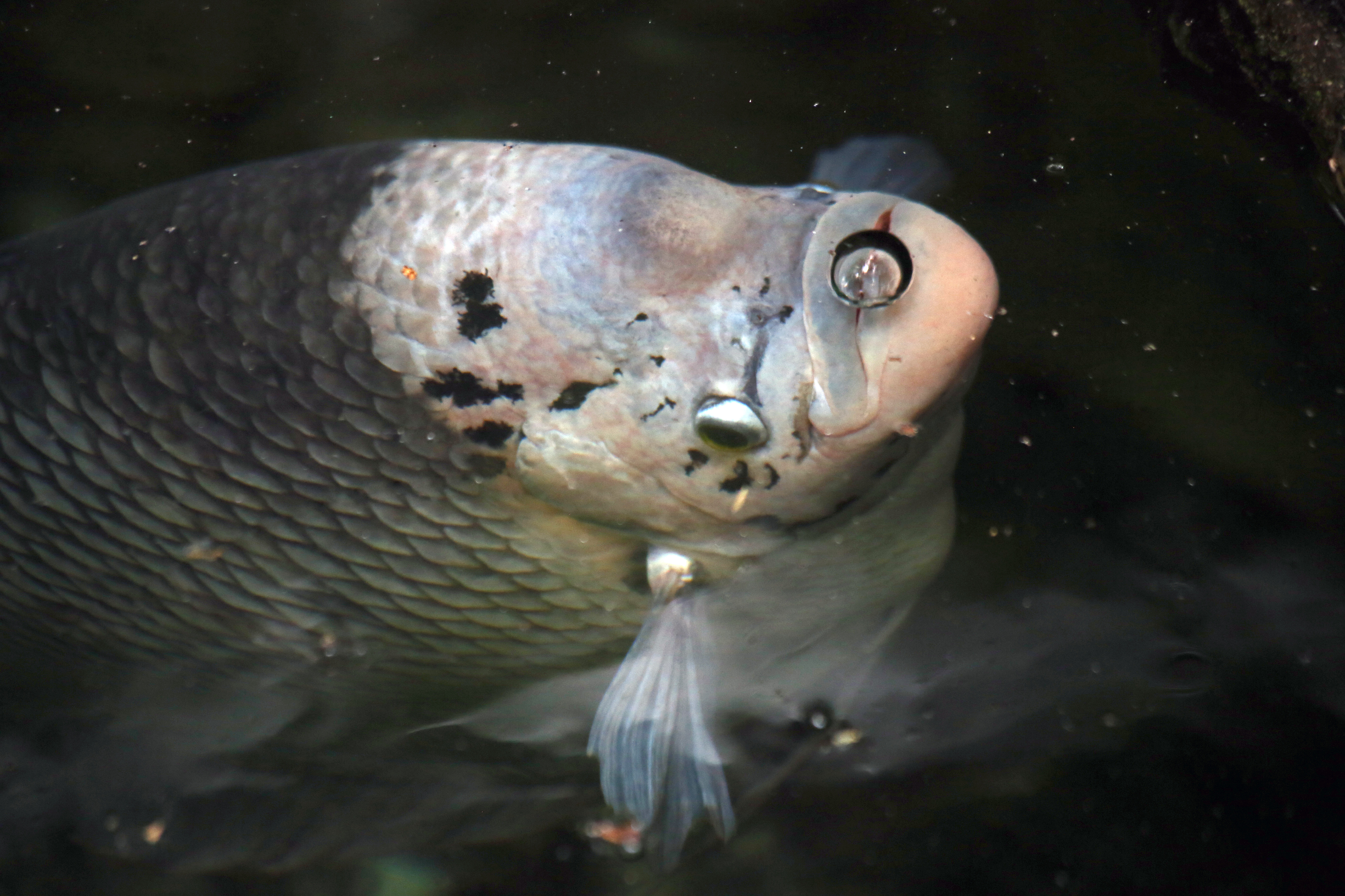 Giant gourami (Osphronemus goramy) at Tiergarten Schönbrunn in Vienna, Austria.